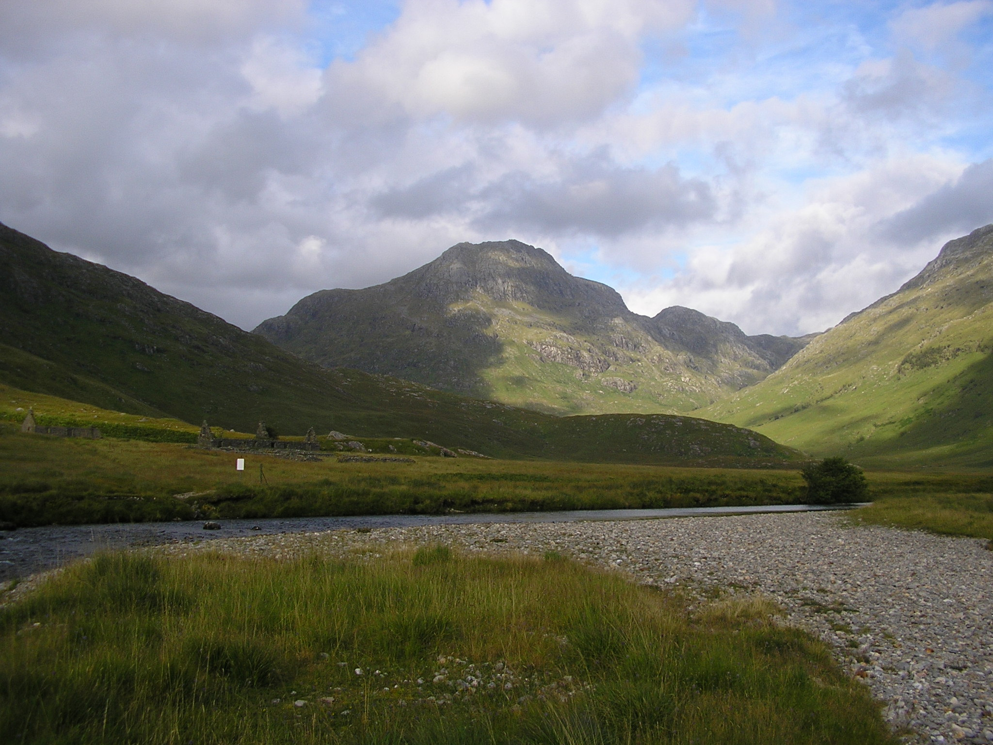 From the head of Loch Nevis